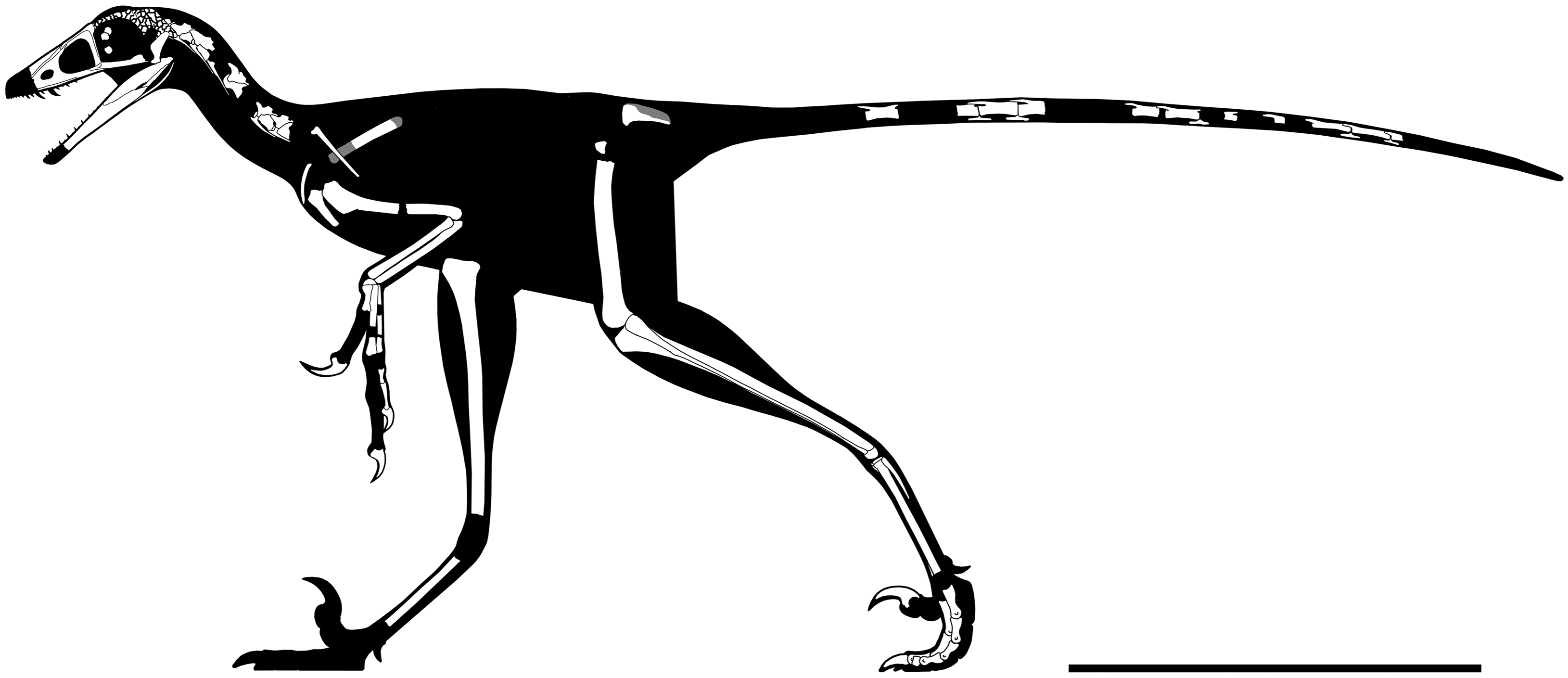 Rigorous skeletal reconstruction of WYDICE-DML-001. Scale bar = 25 cm.